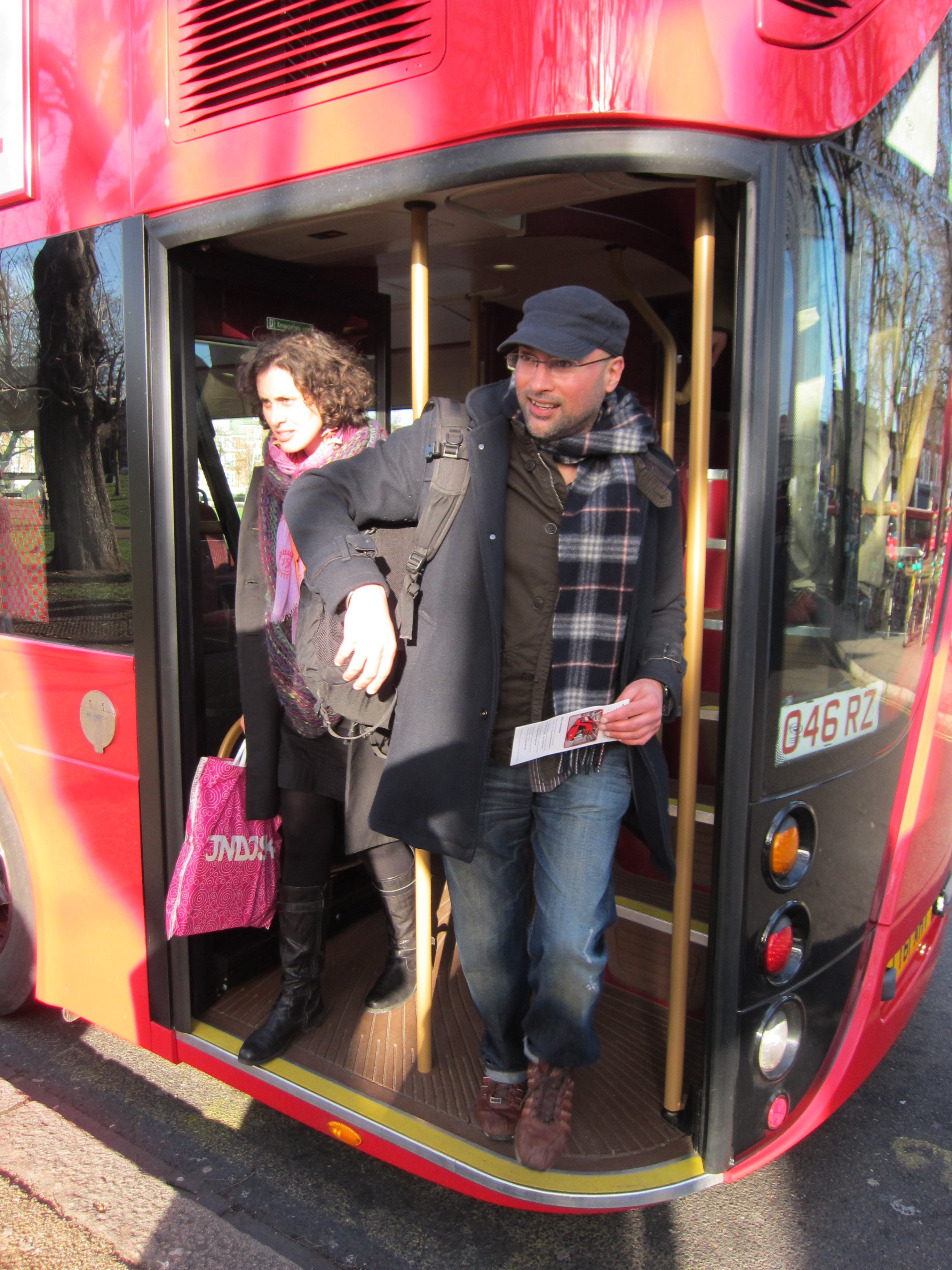 Members of the public using the rear open platform of Arriva London bus LT1 (reg. LT61 AHT), the first of the batch of 8 pre-production working prototypes of the New Bus for London. Already wearing Arriva London livery, it's pictured here in Haven Green, Ealing while on its tour around the city for public viewings, prior to entering trial revenue earning service on Arriva's London Buses route 38 as additional short worked extras.